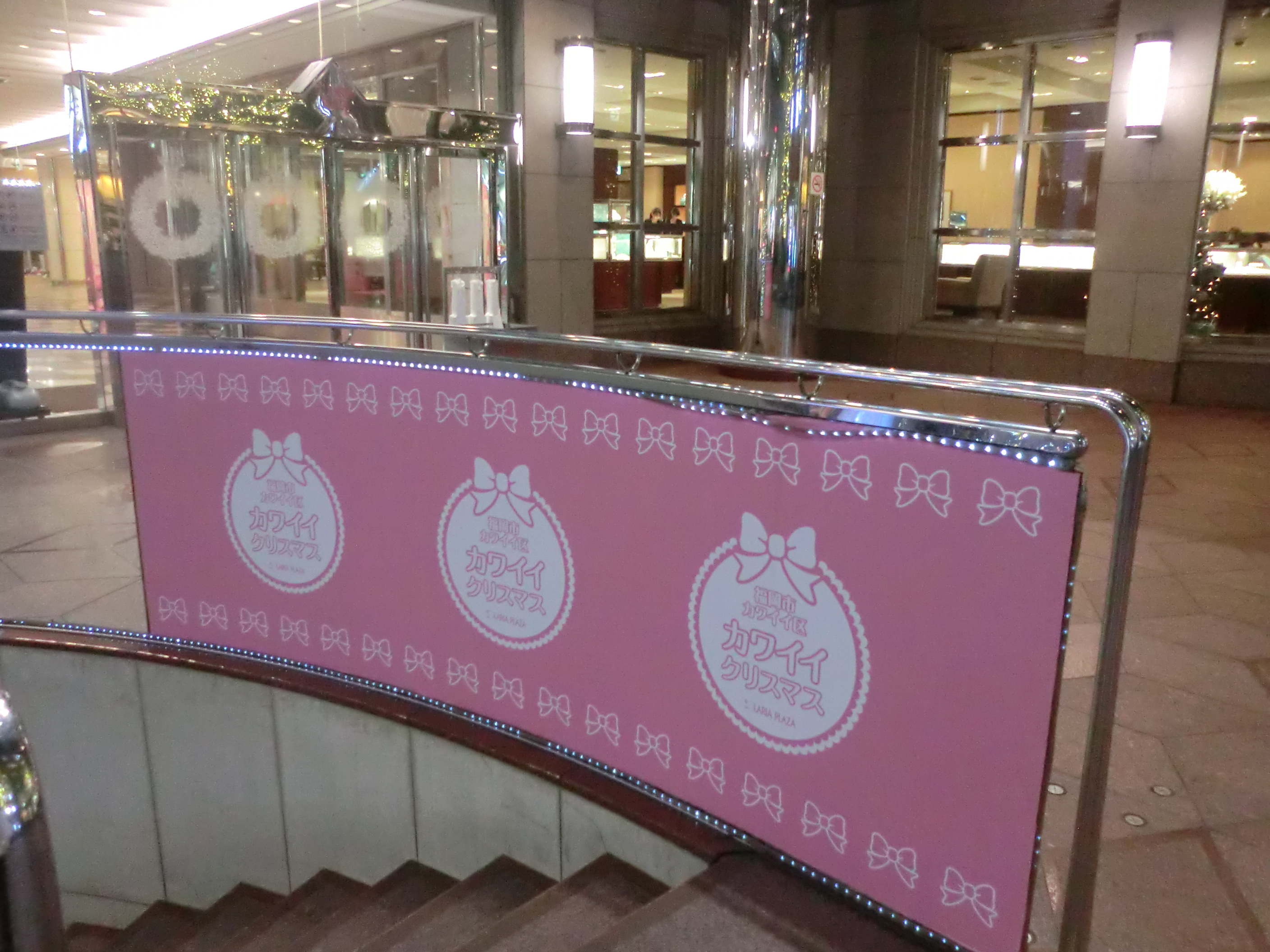 Soralia kawaii Christmas held in Fukuoka,Fukuoka,Japan.